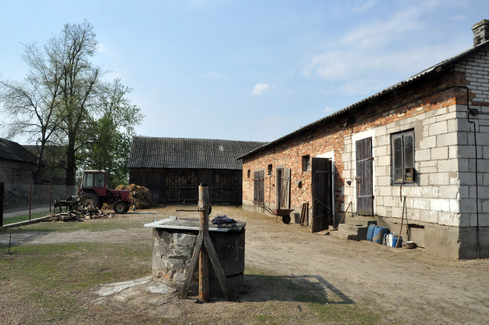 Rural farm